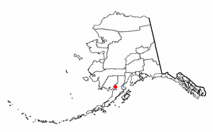 Adapted from Wikipedia's AK borough maps by Seth Ilys.